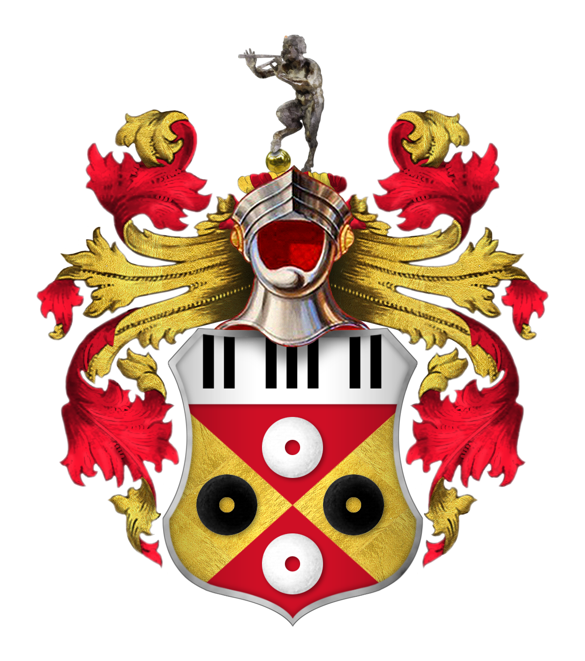 BLAZON: Per saltire gules and or, in fess two pellets pierced and in pale as many plates also pierced, on a chief argent issuant in chief seven pallets retrait two three and two sable.